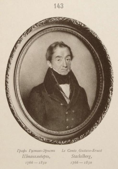 Gustav Ernst von Stackelberg, 1766-1850